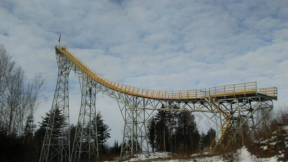 Fully restored Nansen Ski Jump on the Berlin/Milan, N.H. line. (my photo, which I release to the public.)